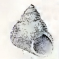 Putzeysia wiseri (Calcara, 1842); family Calliotropidae